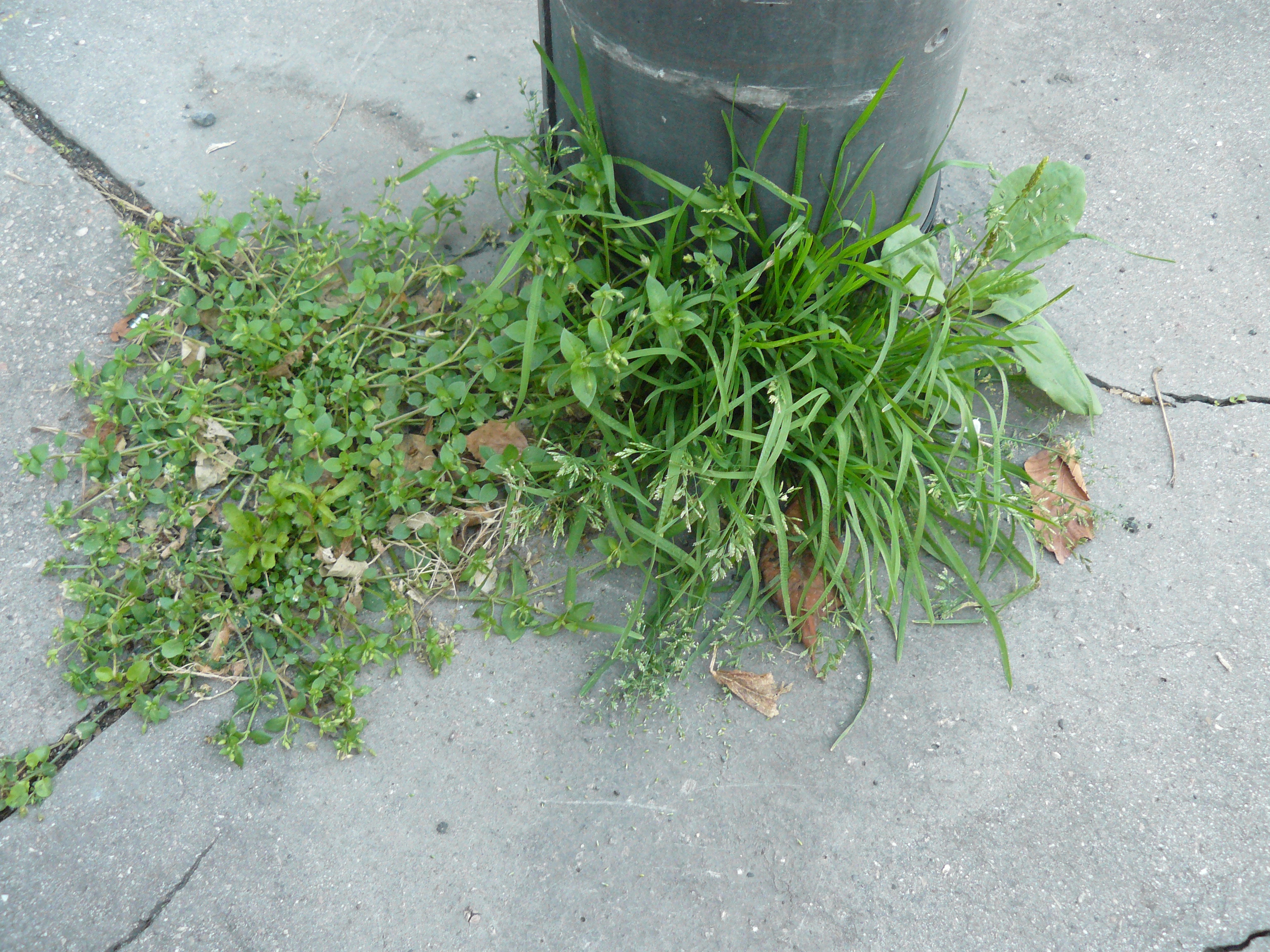 Saginion procumbentis grup evoluated (Phytosociology) on street. Less trampled than Image:Saginion procumbentis.jpg, it can grow. We can see Stellaria media, Plantago major and Poa annua